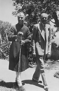 Muhammed Ali Jinnah and Jawahar Lal Nehru walking in the grounds of Government House, Simla, British India. Image taken from British Library (repository of India Office materials) here, described here. While there is no perfect link-up, the images the library has on Jinnah are listed here and the two men are listed as "walking", which they are not in the other two Jinnah/Nehru images. While there is not certainty, it is overwhelmingly likely this is the image referred to. For more definitive attribution, see: A Concise History of Modern India[1], Cambridge University Press, 24 September 2012, ISBN 978-1-107-02649-0, page xi: “7.1 Jawaharlal Nehru (left) and M. A. Jinnah (right) at the Simla Conference 1945. By permission of the British Library 134/2 [28].” and for picture A Concise History of Modern India[2], Cambridge University Press, 24 September 2012, ISBN 978-1-107-02649-0, page 211).